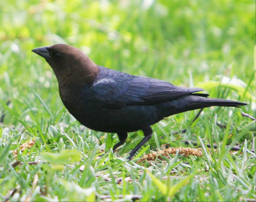 Molothrus ater